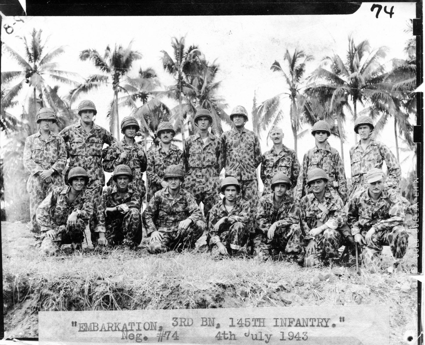 Commander_of_3rd_Battalion_and_Company_Commanders_of_145th_Infantry_Prior_To_Invasion_of_New_Georgia_Island_1943-07-04